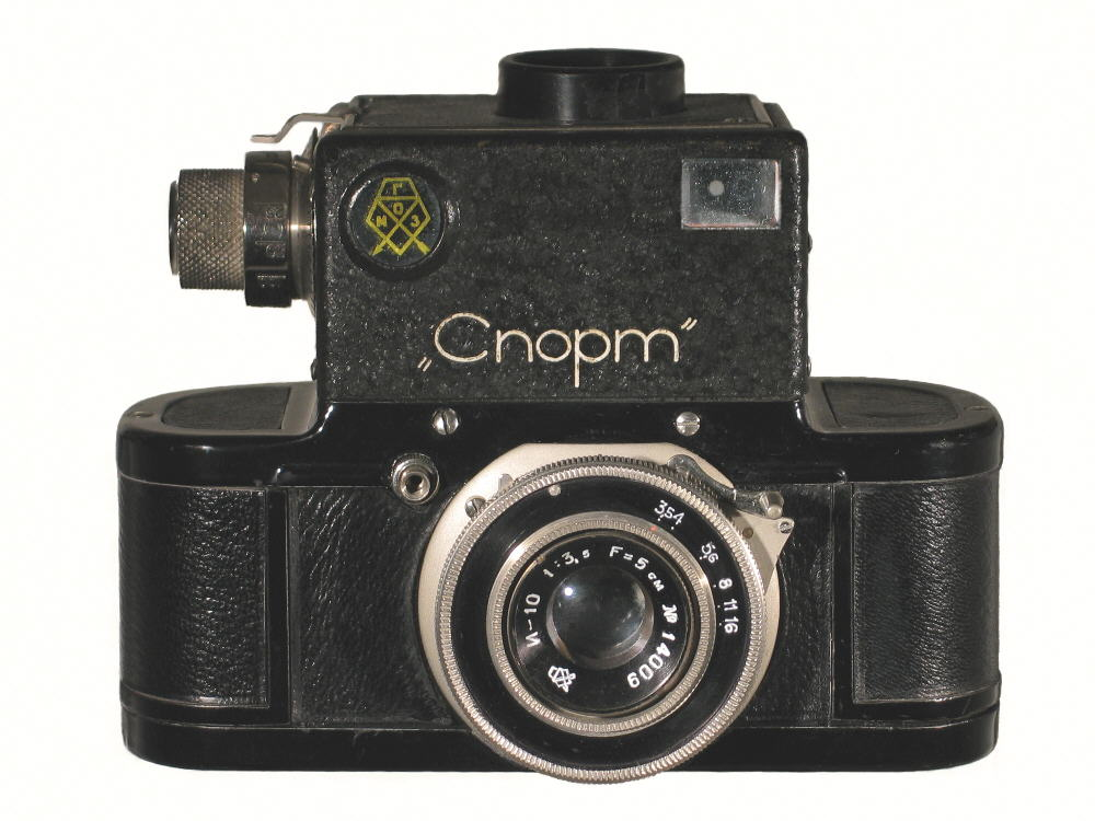 Direct front view of GOMZ Sport 35mm SLR camera from about 1937